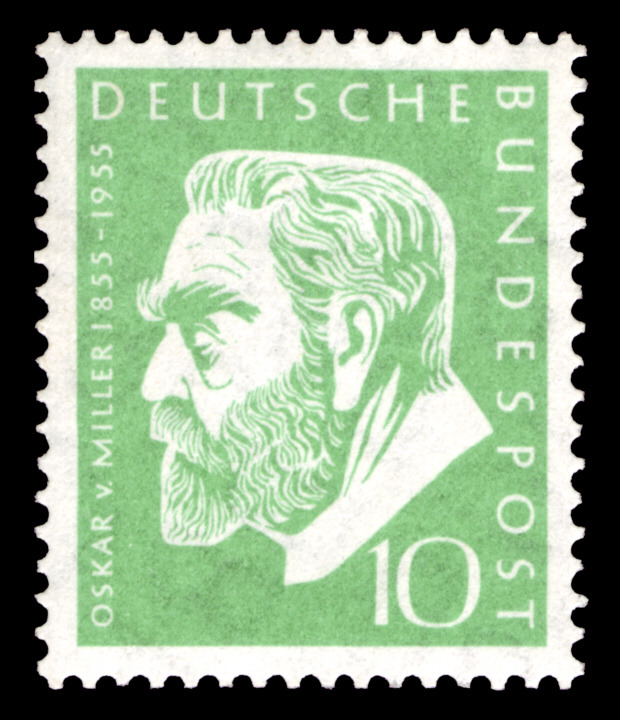 stamp for the 100th day of birth of Oskar von Miller (1759-1805) Graphics by Gerhardt Ausgabepreis: 10 Pfennig First Day of Issue / Erstausgabetag: 7. Mai 1955 Michel-Katalog-Nr: 209